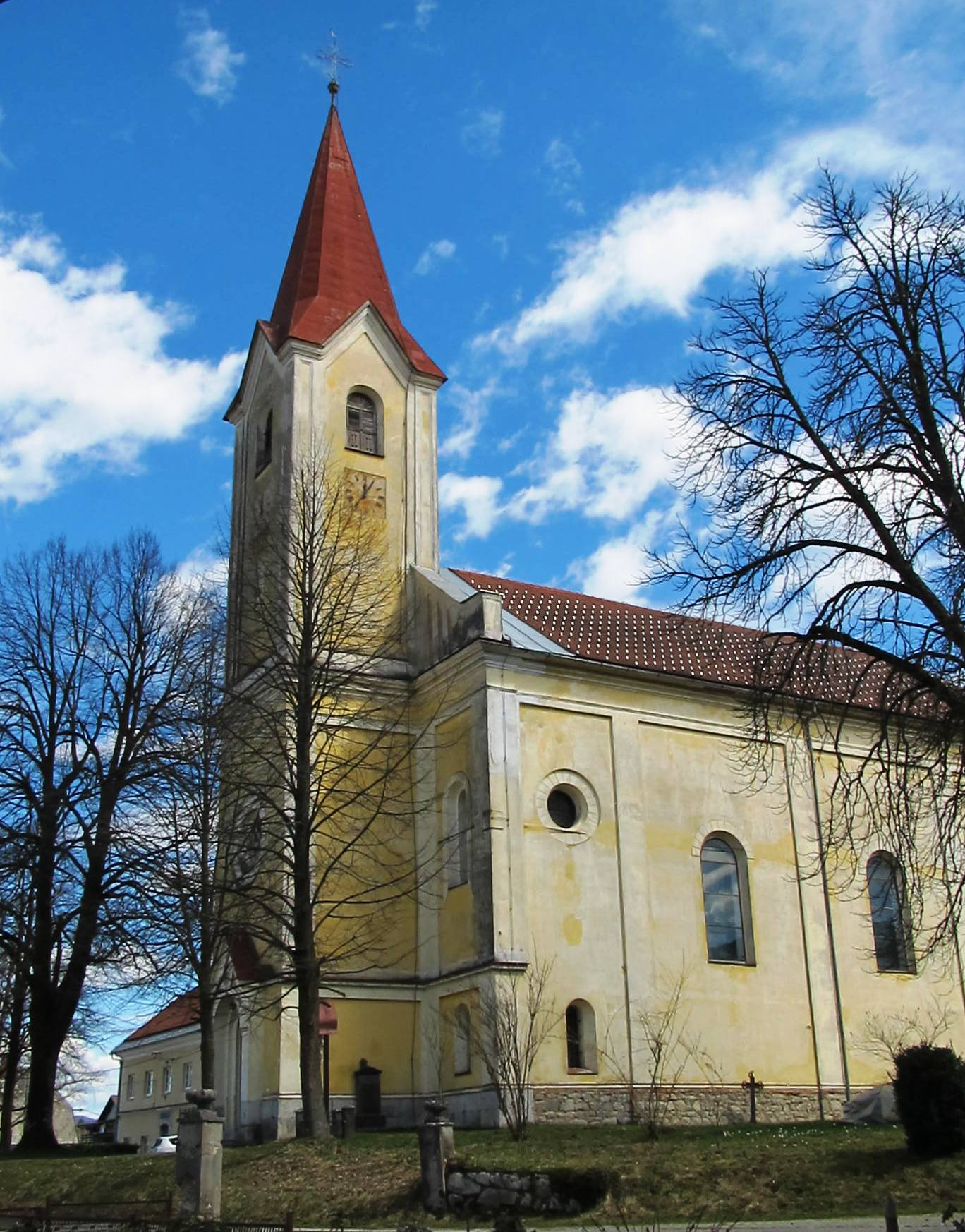 Stara Cerkev, Municipality of Kočevje, Slovenia. Assumption Church.